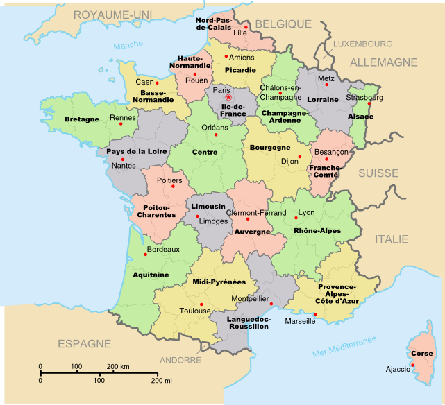 Départements, régions and capitals in France